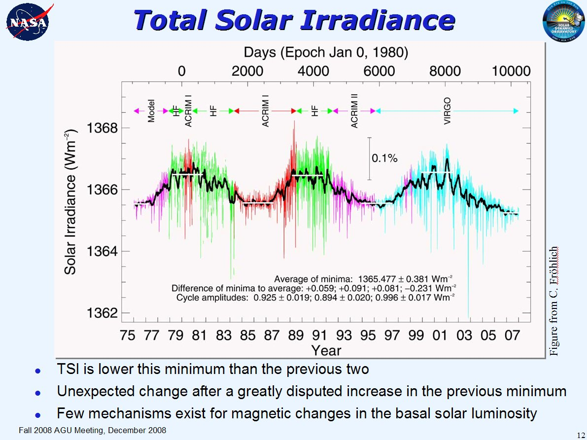 Space-age measurements of the total solar irradiance (brightness summed across all wavelengths). This plot, which comes from researcher C. Fröhlich, was shown by Dean Pesnell at the Fall 2008 AGU meeting during a lecture entitled "What is Solar Minimum and Why Should We Care?"